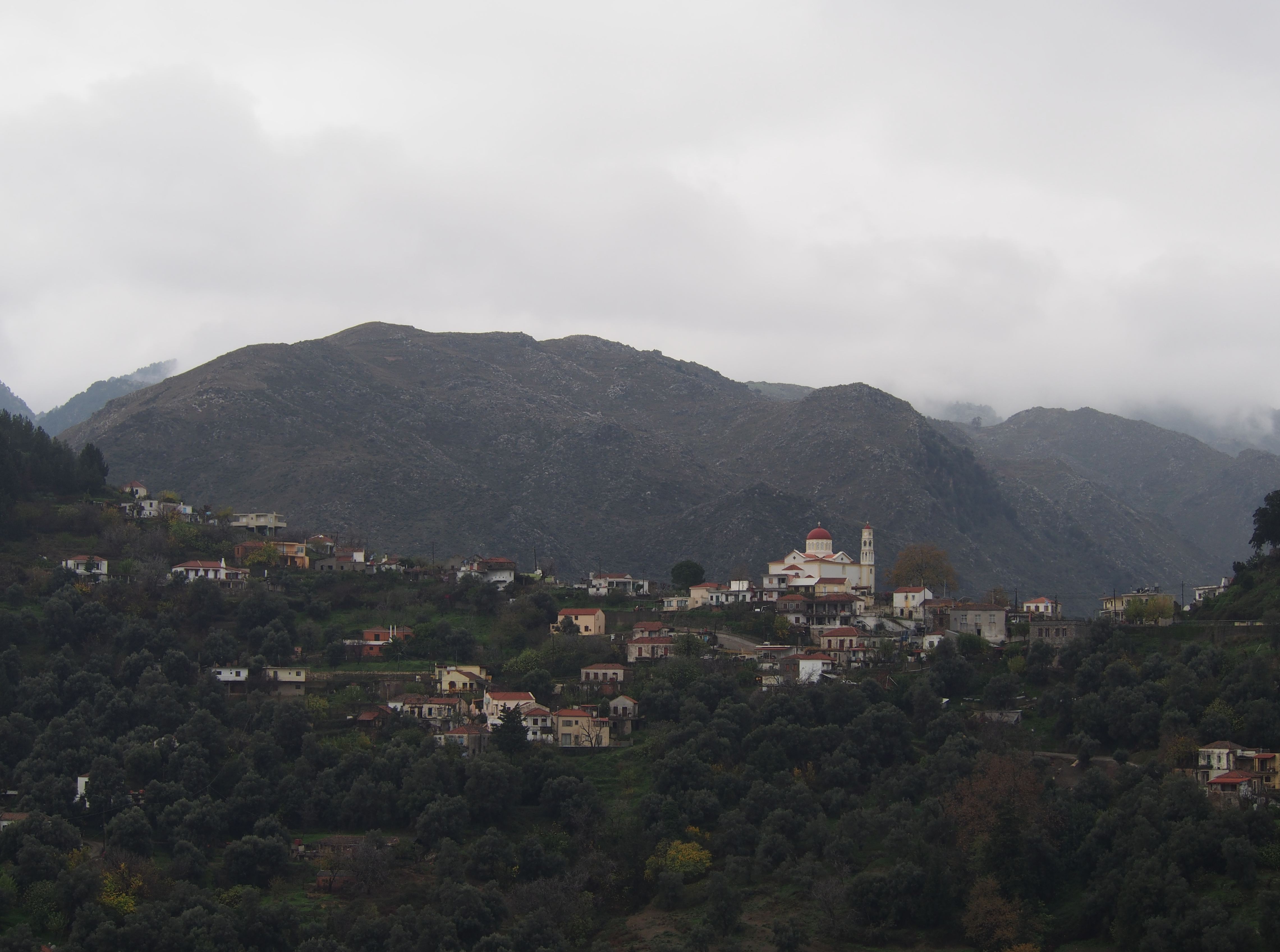 Partial view of the village Lakkoi on the north slopes of Lefka Ori, Crete